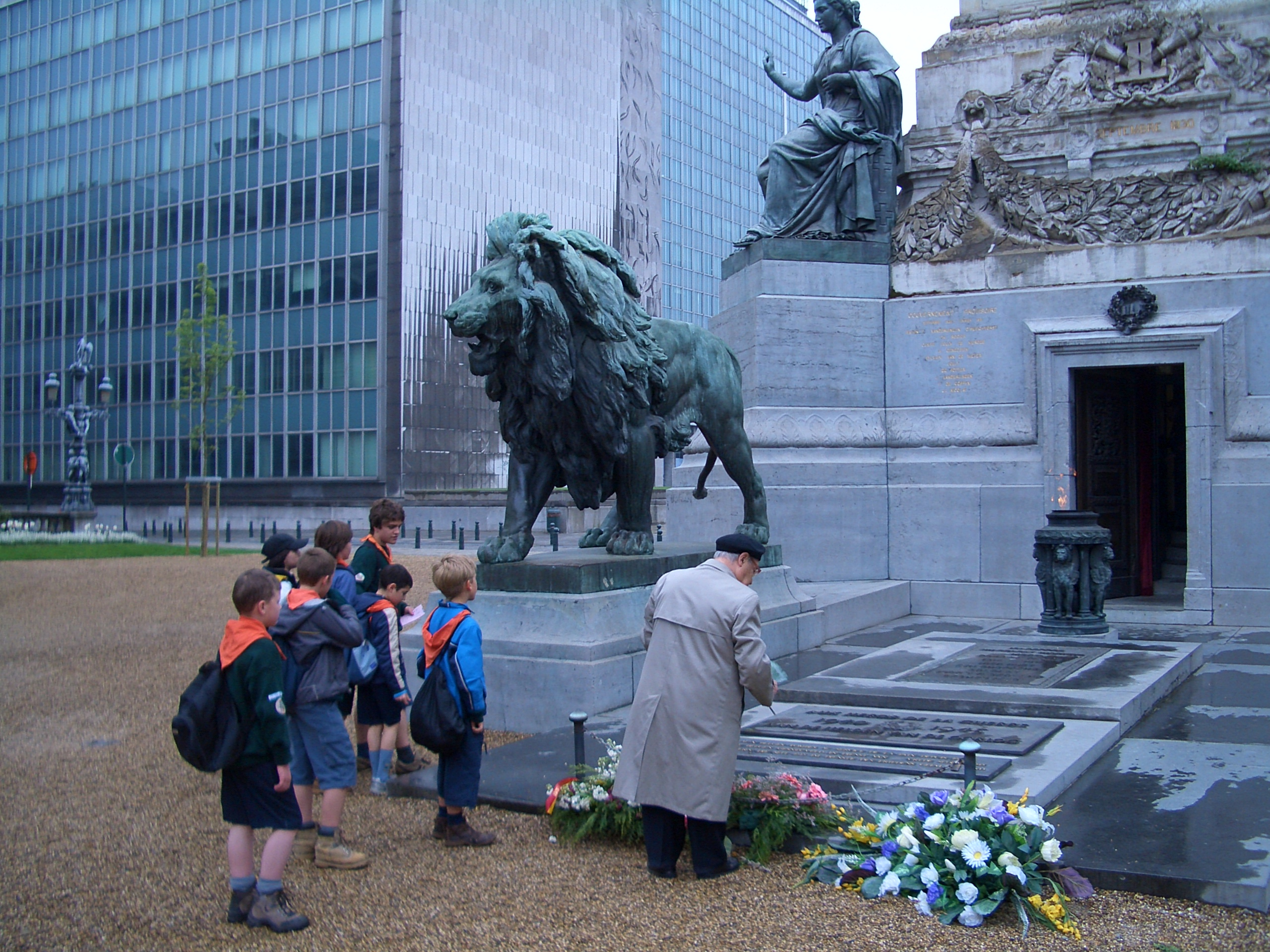 Belgian boy scouts at a war monument in Brussels